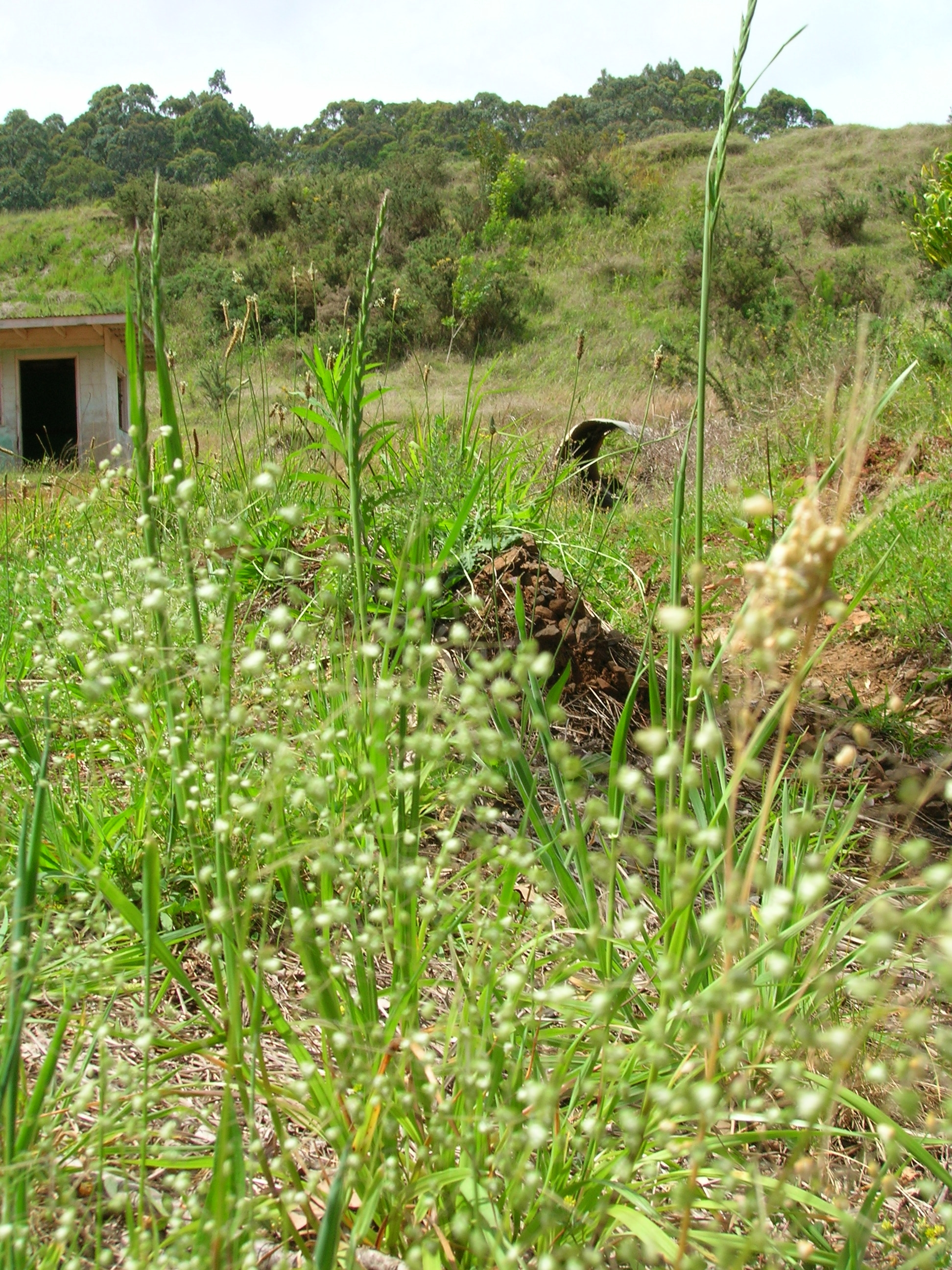 Briza minor (seeds). Location: Maui, Makawao Forest Reserve